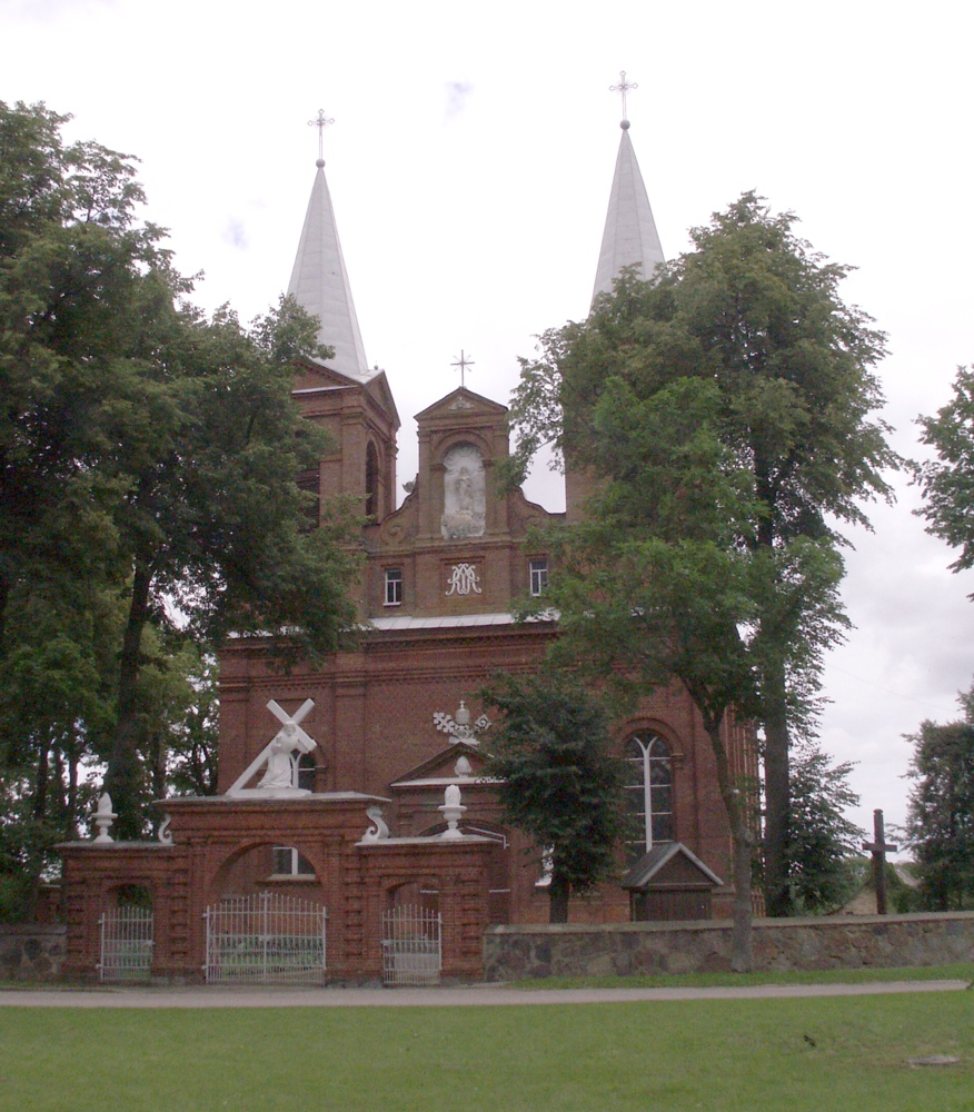 Church in Meškuičiai, Šiauliai district, Lithuania